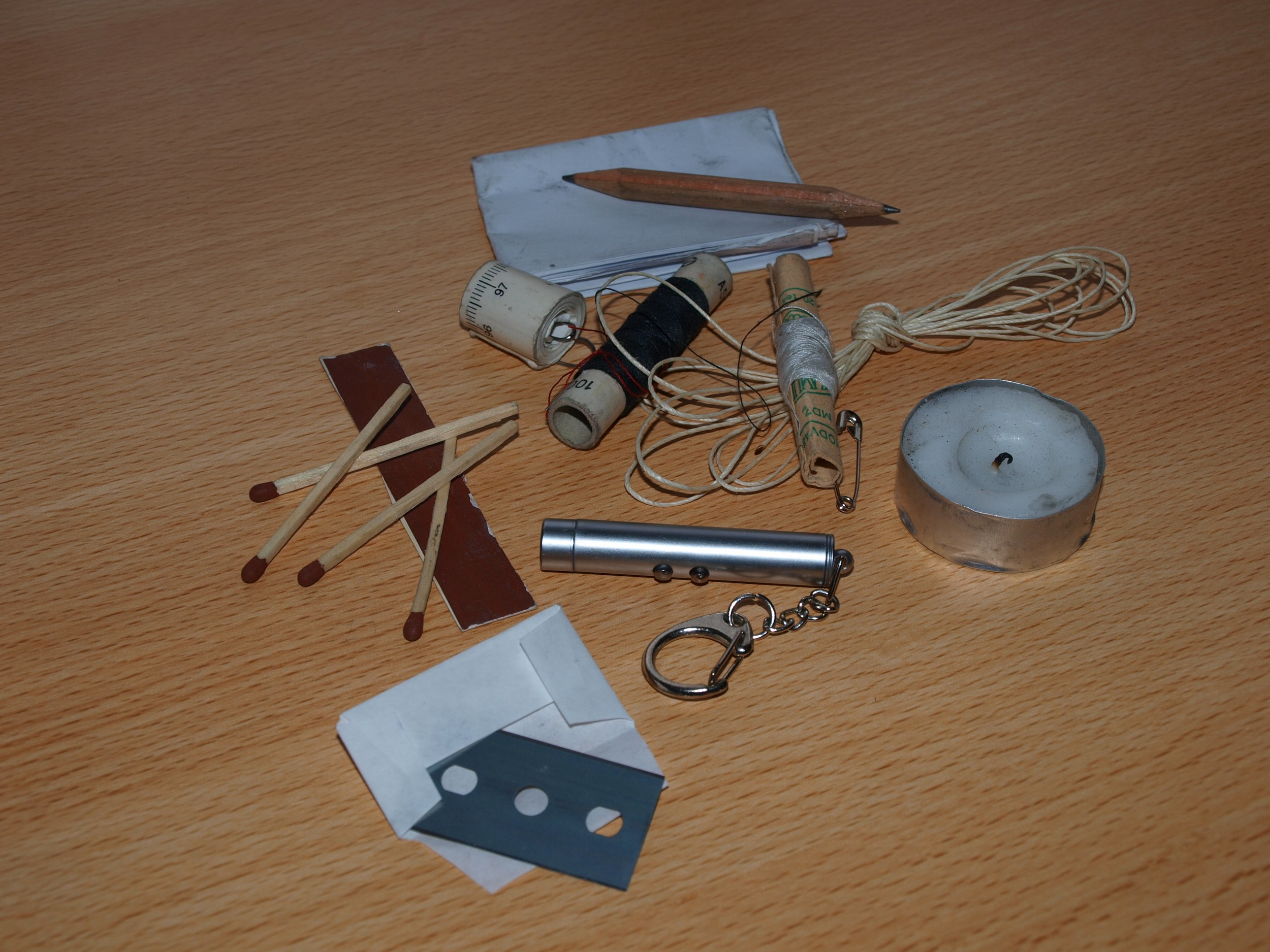 Contents of packet of last resort